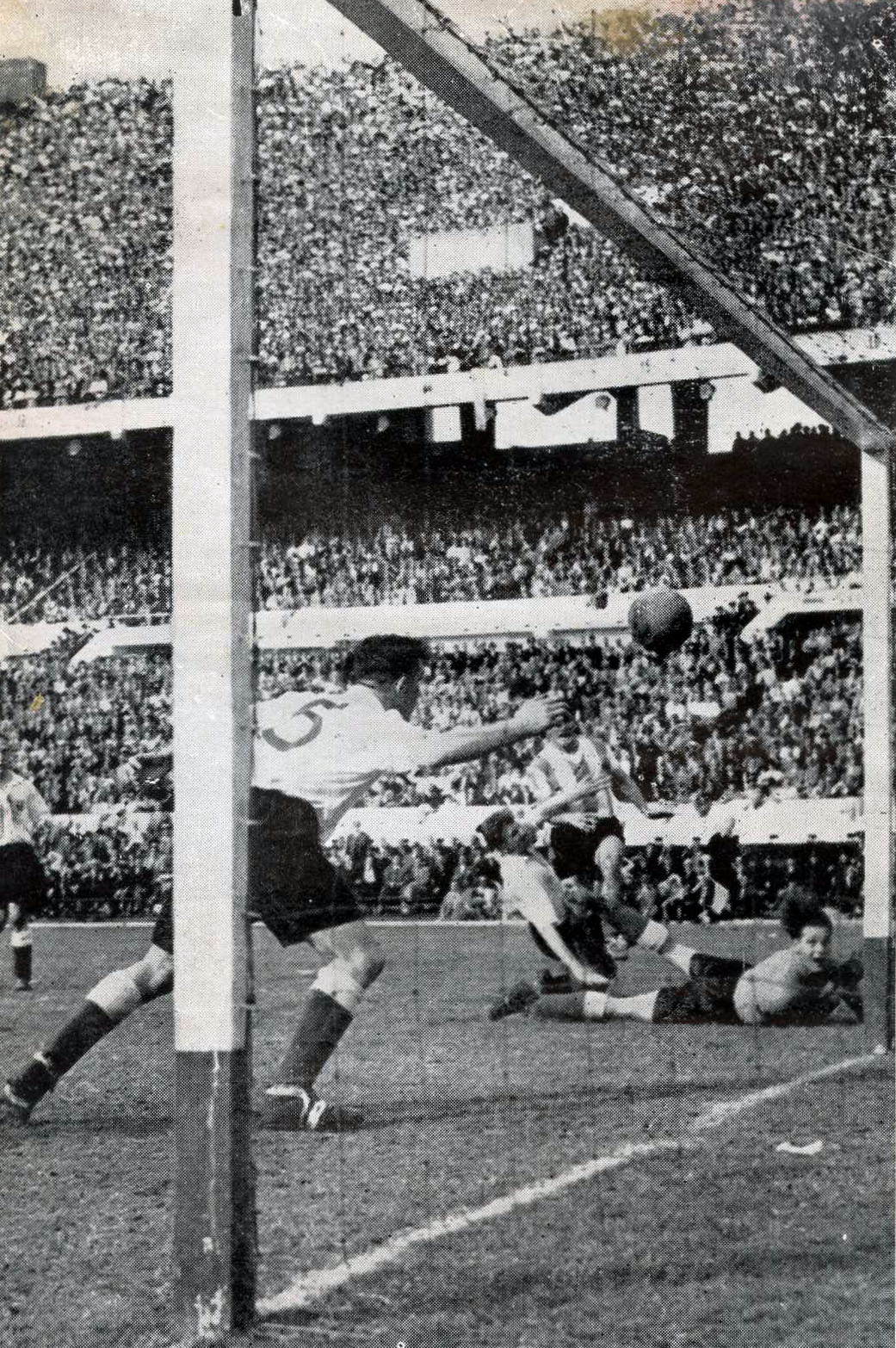 The goal scored by Ernesto Grillo of Argentina national football team v. the English side in 1953. The friendly match (played at River Plate) was won by Argentina by 3-1.